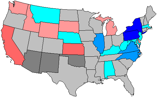 Summary of party change of U.S. house seats in the 1898 House election. Stripes indicate a tie between the gains of two or more parties. Legend: 6+ Democratic seat pickup 3-5 Democratic seat pickup 1-2 Democratic seat pickup 1-2 Republican seat pickup 3-5 Republican seat pickup 6+ Republican seat pickup 1-2 Populist seat pickup 3-5 Populist seat pickup Note: years ending in 2 may have inconsistent results due to redistricting.